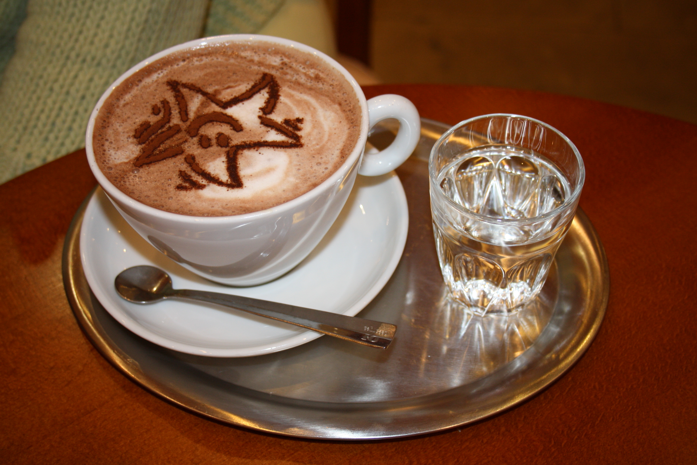 Hot chocolate whith a star.